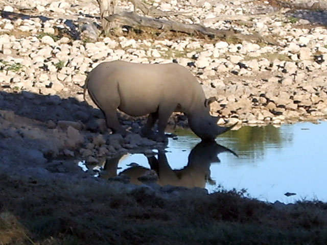 White rhino at watering hole in the morning.